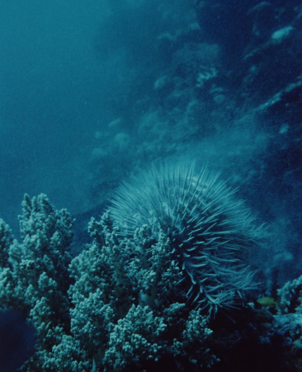 "Crown-of-thorns" sea star (Acanthaster planci, probably male) releasing its semen in the water in Australia.